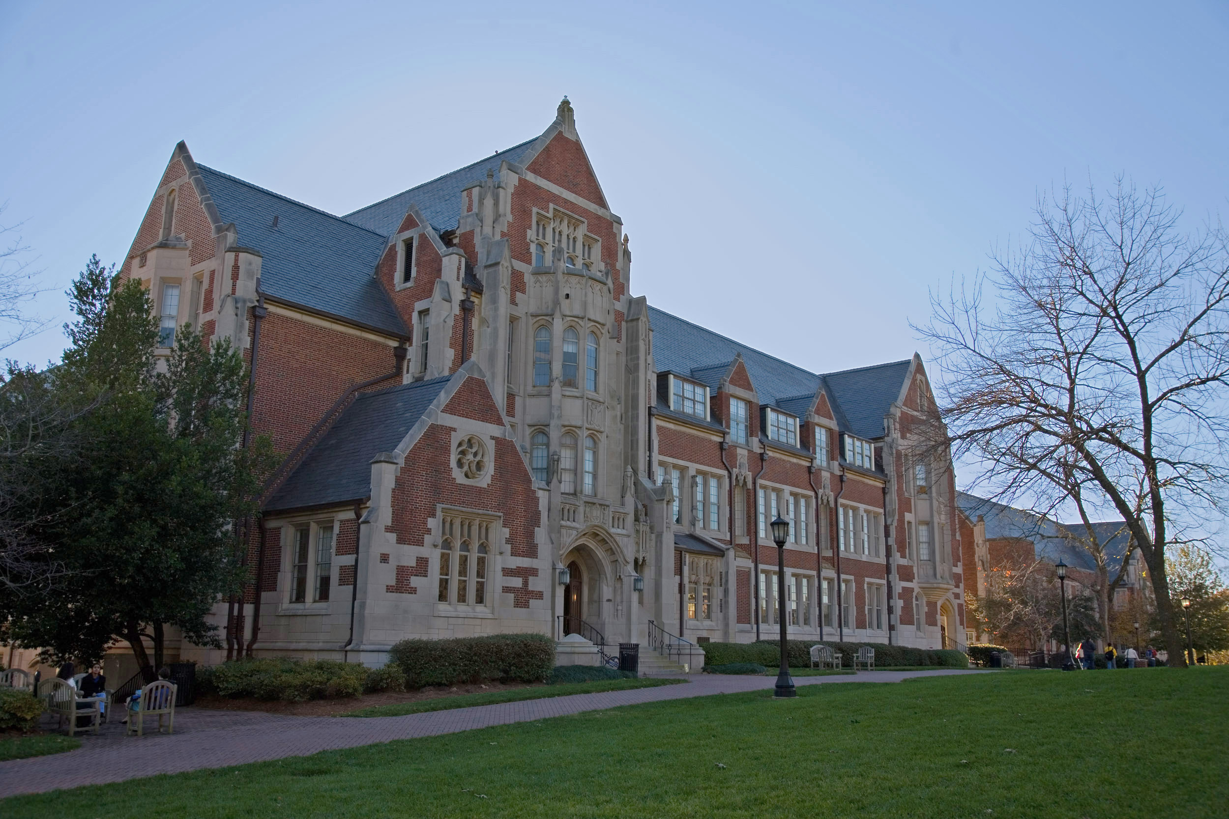 Buttrick Hall at Agnes Scott College. Taken with a Canon 5D and 24-105mm f/4L IS lens.